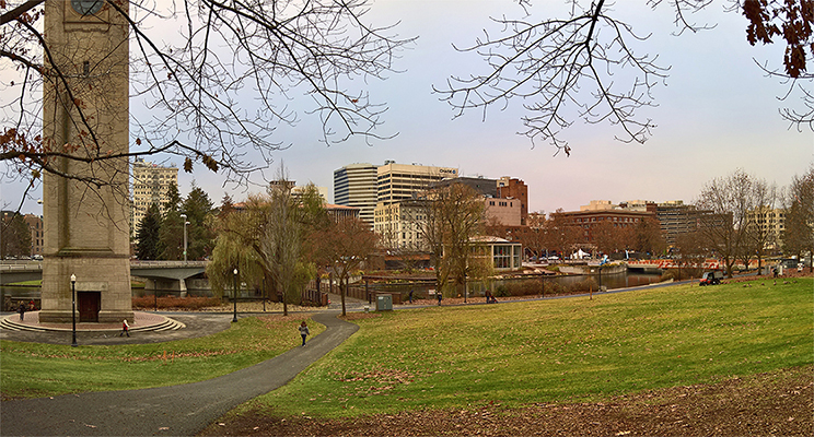 The Clock Tower Meadow in Spokane's Riverfront Park in 2018, looking southwest.